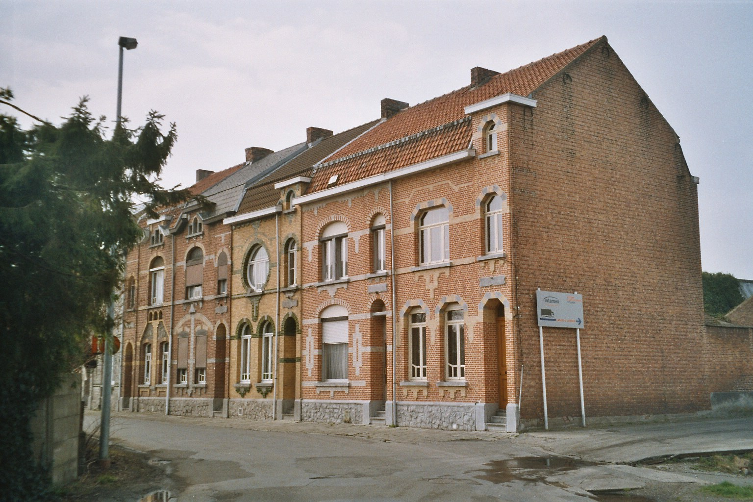 Typical houses in the town of Baasrode, which is the part of Dendermonde munitipality.